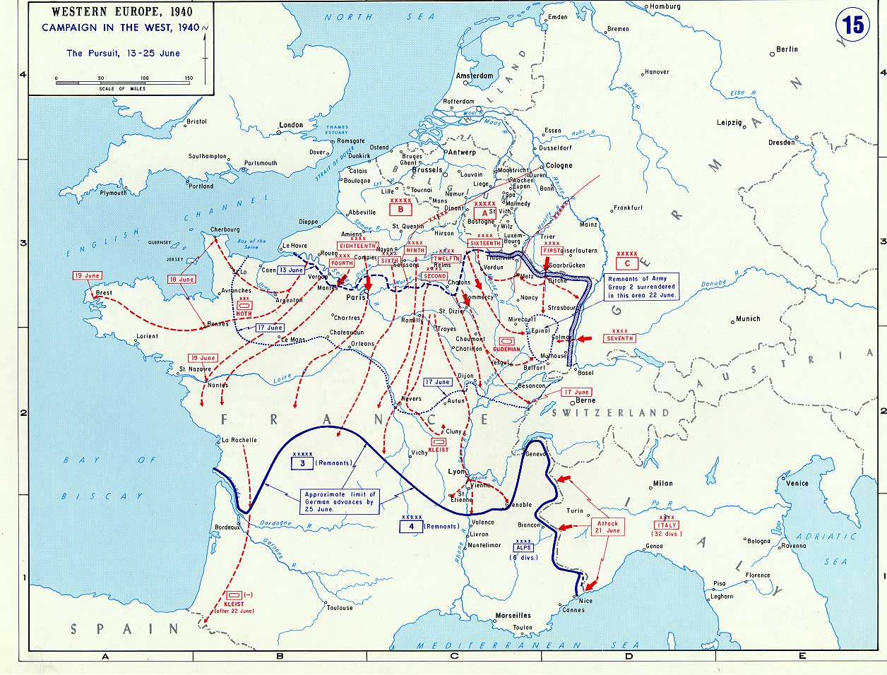 来源: Department of History